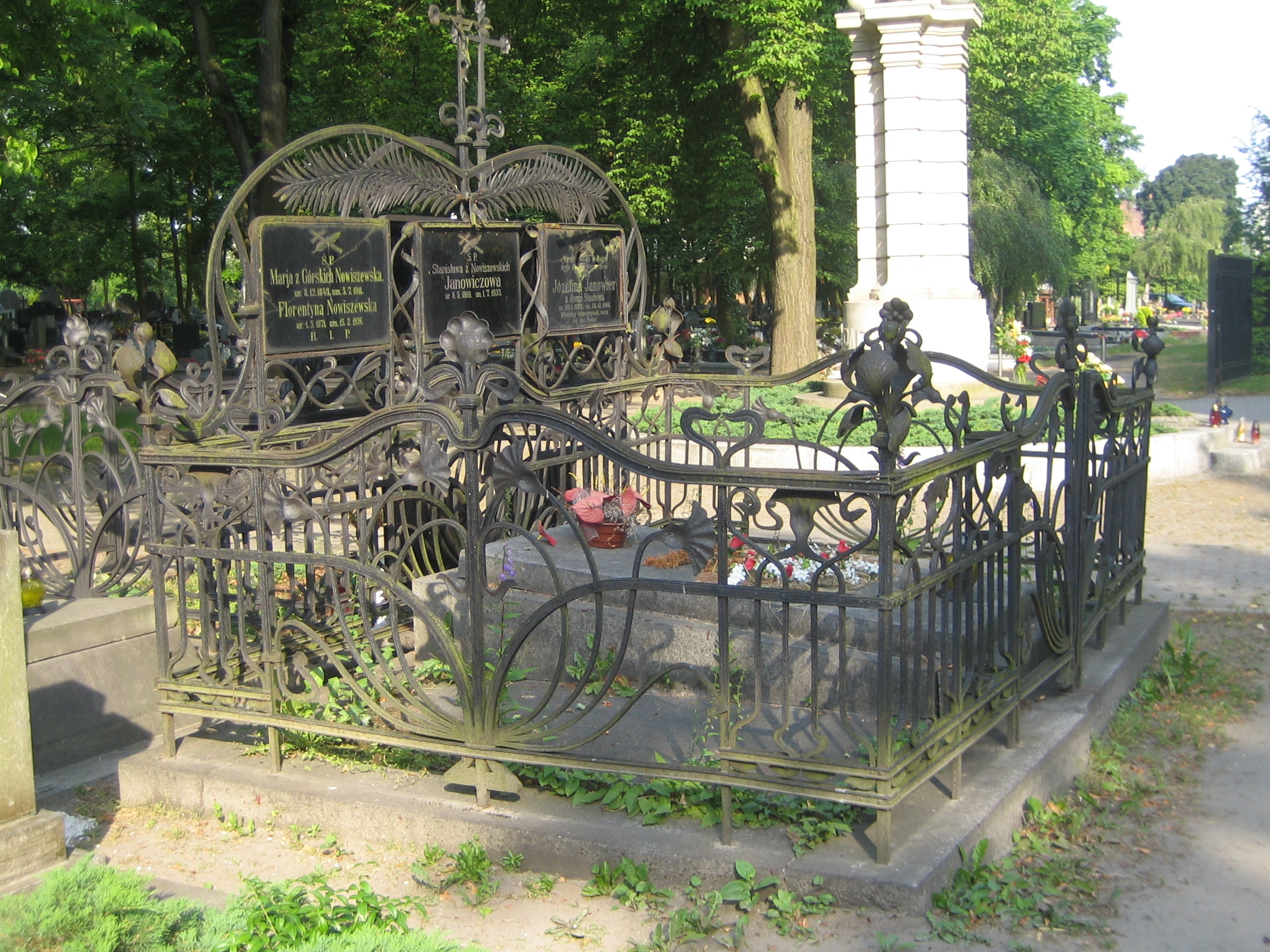 The tombstone of Janowicz at the Jeżyce Cemetery in Poznań.